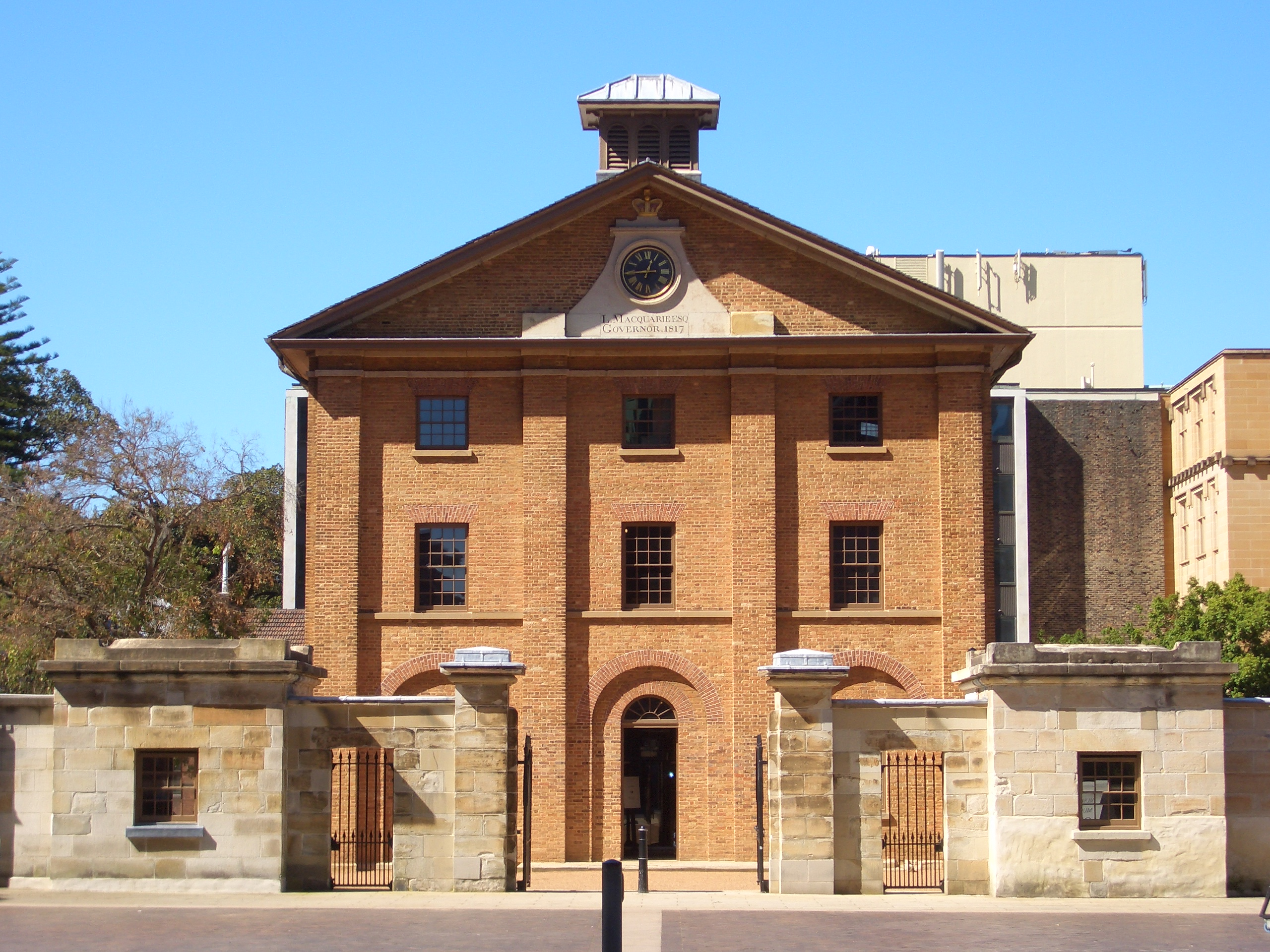 Hyde Park Barracks, Macquarie Street, Sydney, Australia. I took this photo on the 1st September 2006. J Bar 01:18, 4 September 2006 (UTC)